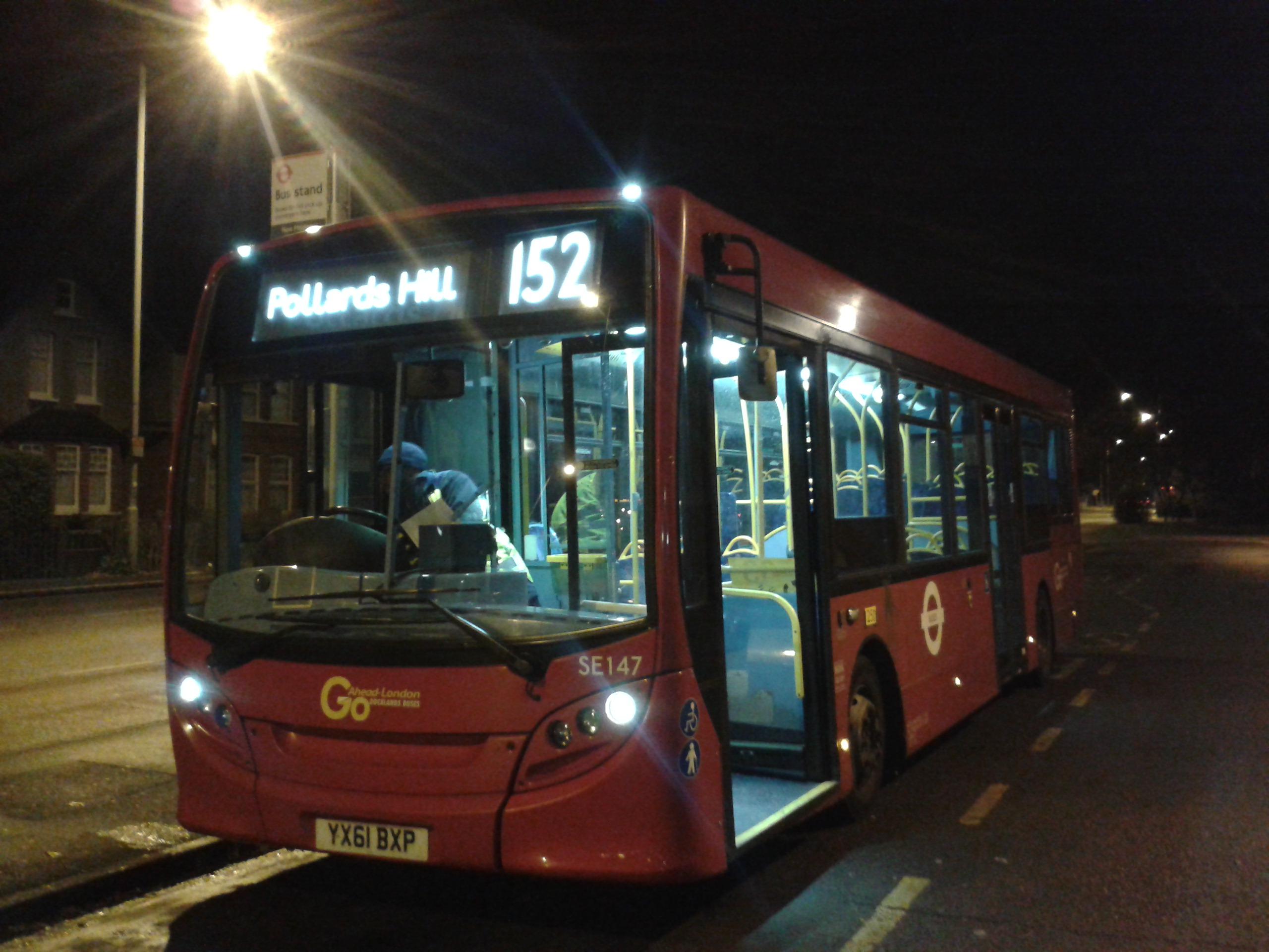 London General SE147 on Route 152*, New Malden Fountain